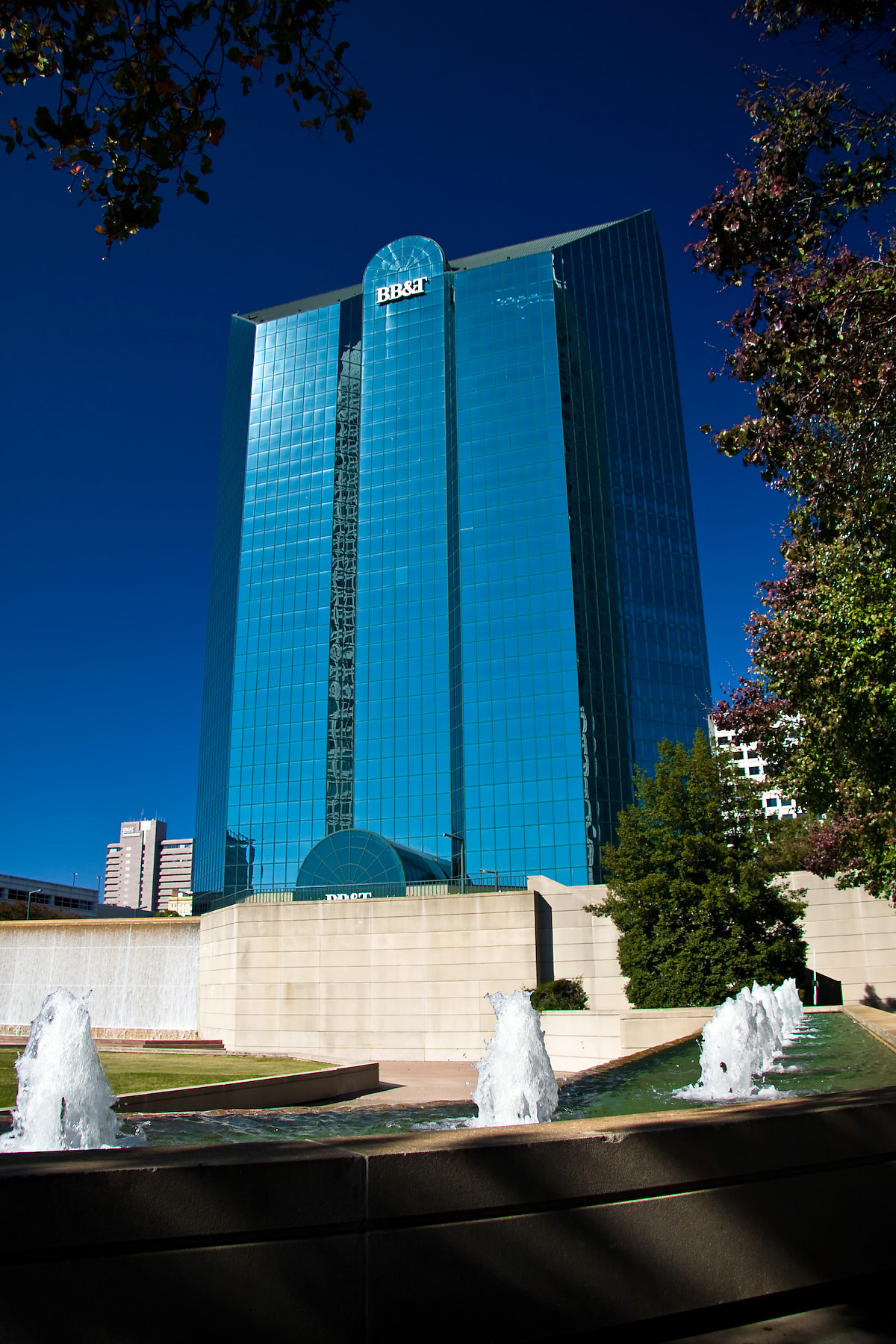 The BB&T headquarters building in Winston Salem, North Carolina.